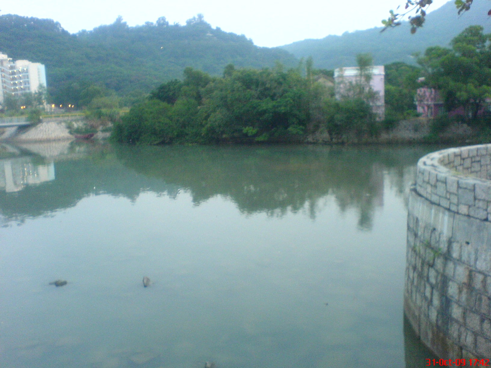 A part of Silver River where 3 upper-stream-rivers merge.